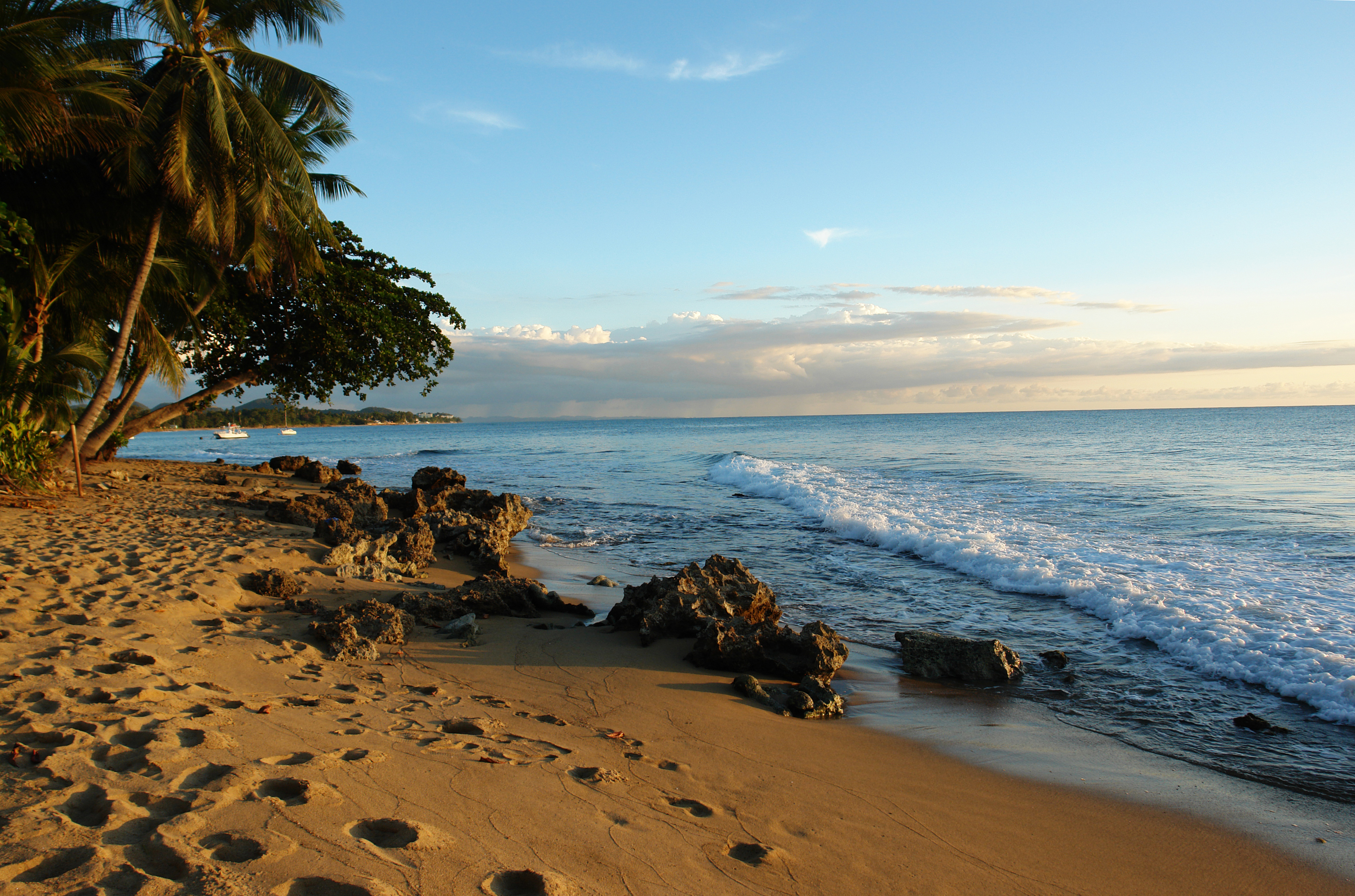 The Caribbean side of the island, Rincon, Puerto Rico.